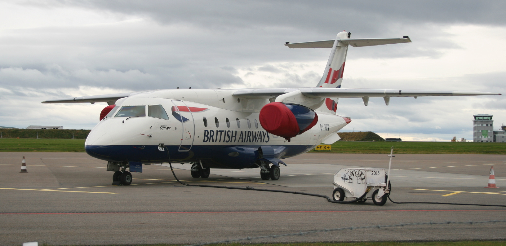 A Sun Air of Scandinavia Dornier 328JET at Åre Östersund Airport.